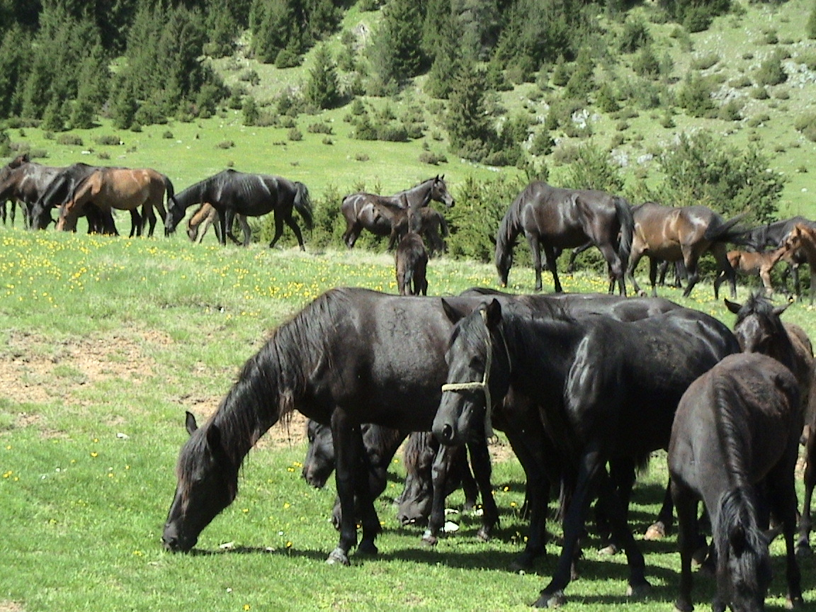 Bosnian Pony